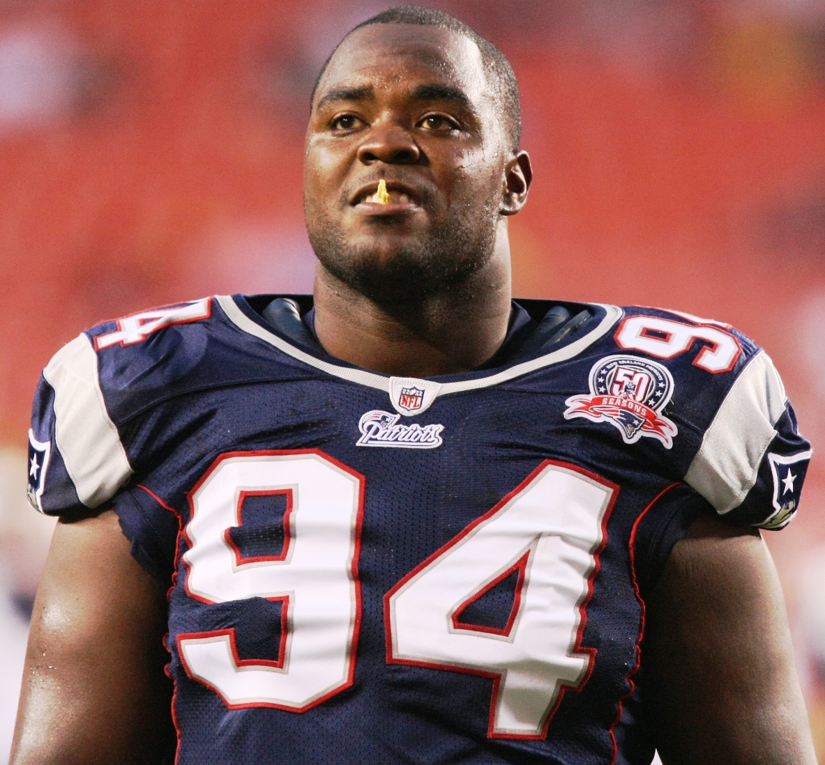 New England Patriots player Ty Warren at the Redskins vs. Patriots game